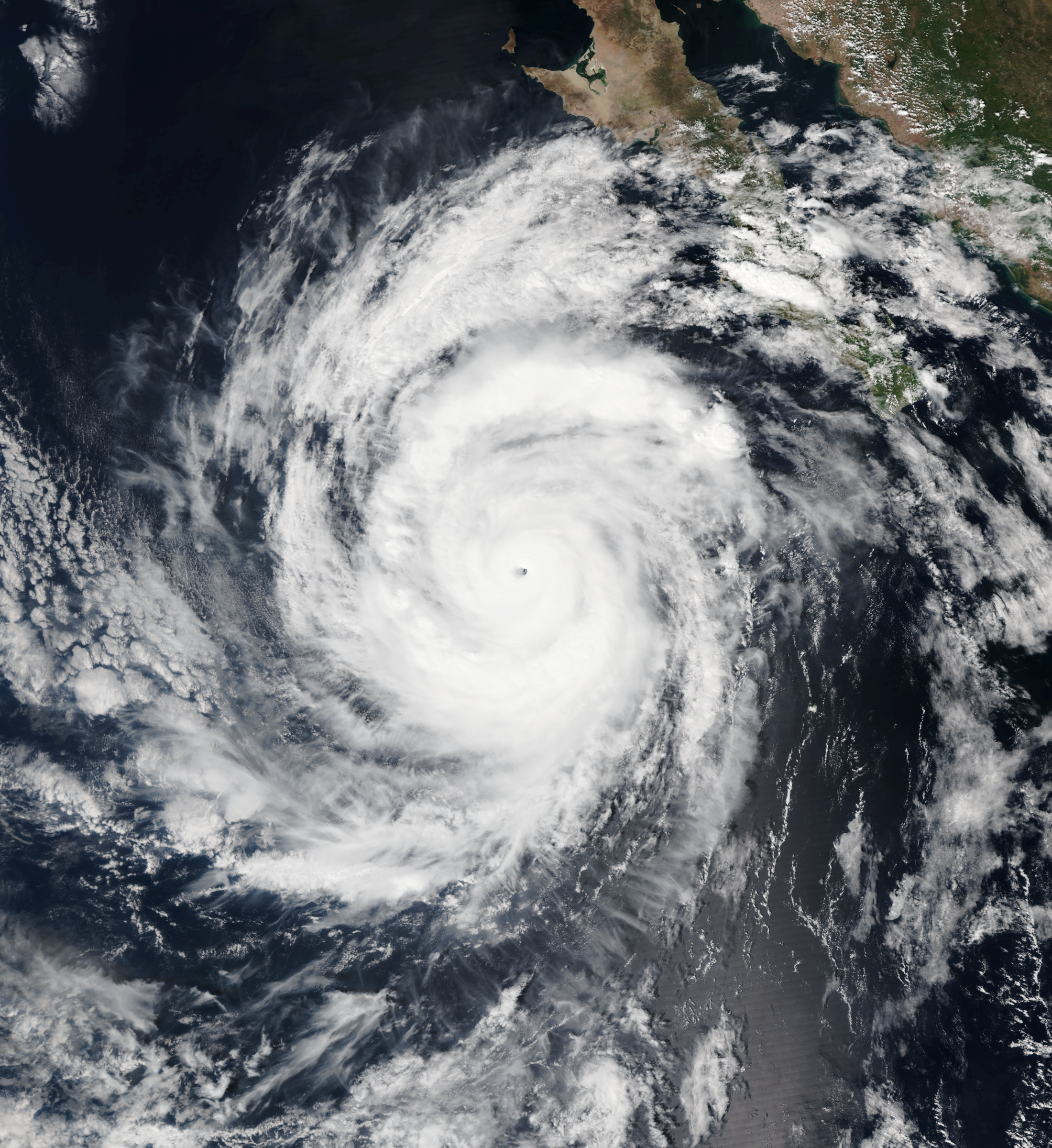 Hurricane Simon as a Category 3 hurricane antecedent to its peak as a Category 4 hurricane on October 4, 2014.